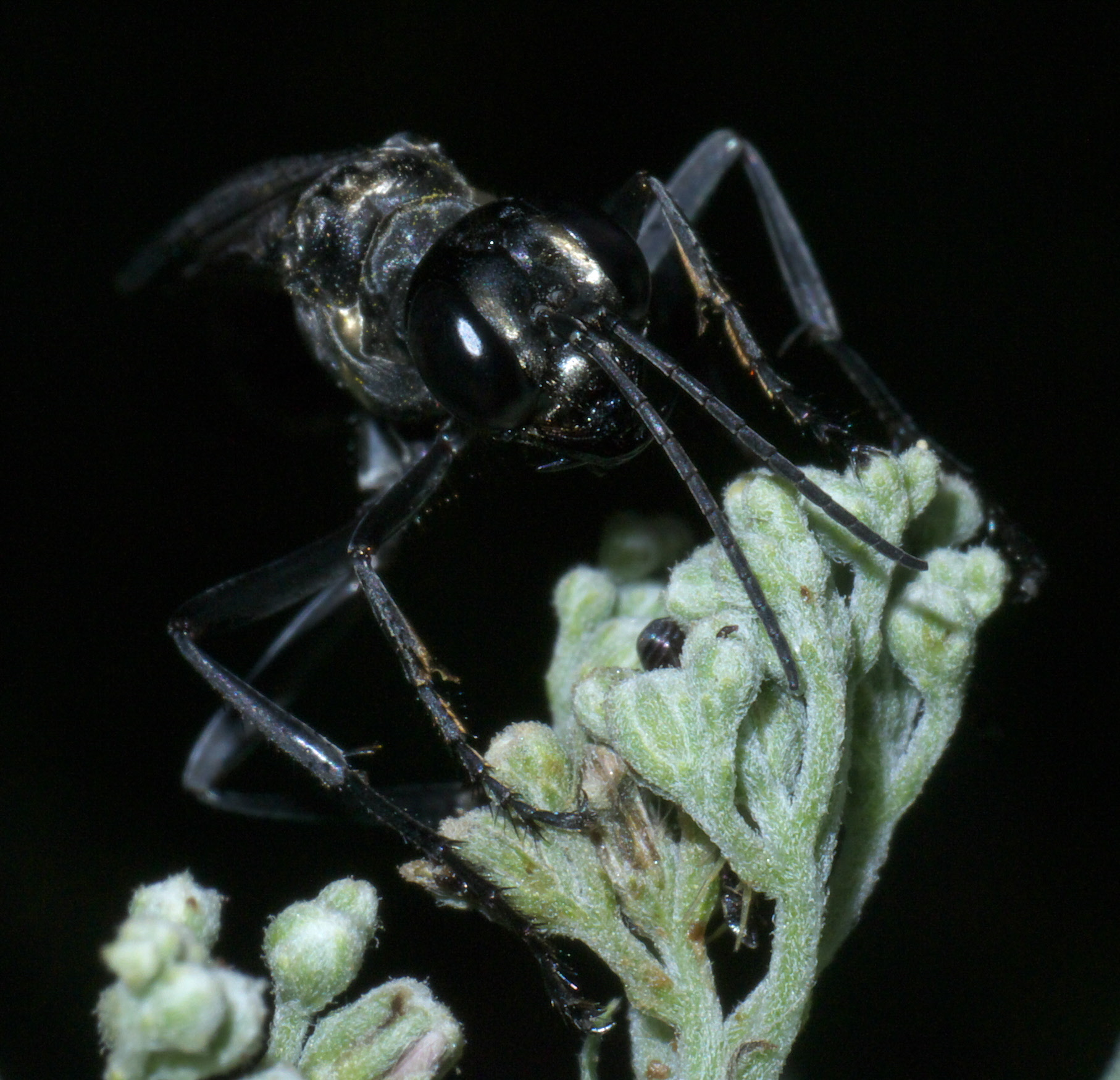 Eremnophila aureonotata, Family: Thread-waisted Wasps, ID Confidence: 87